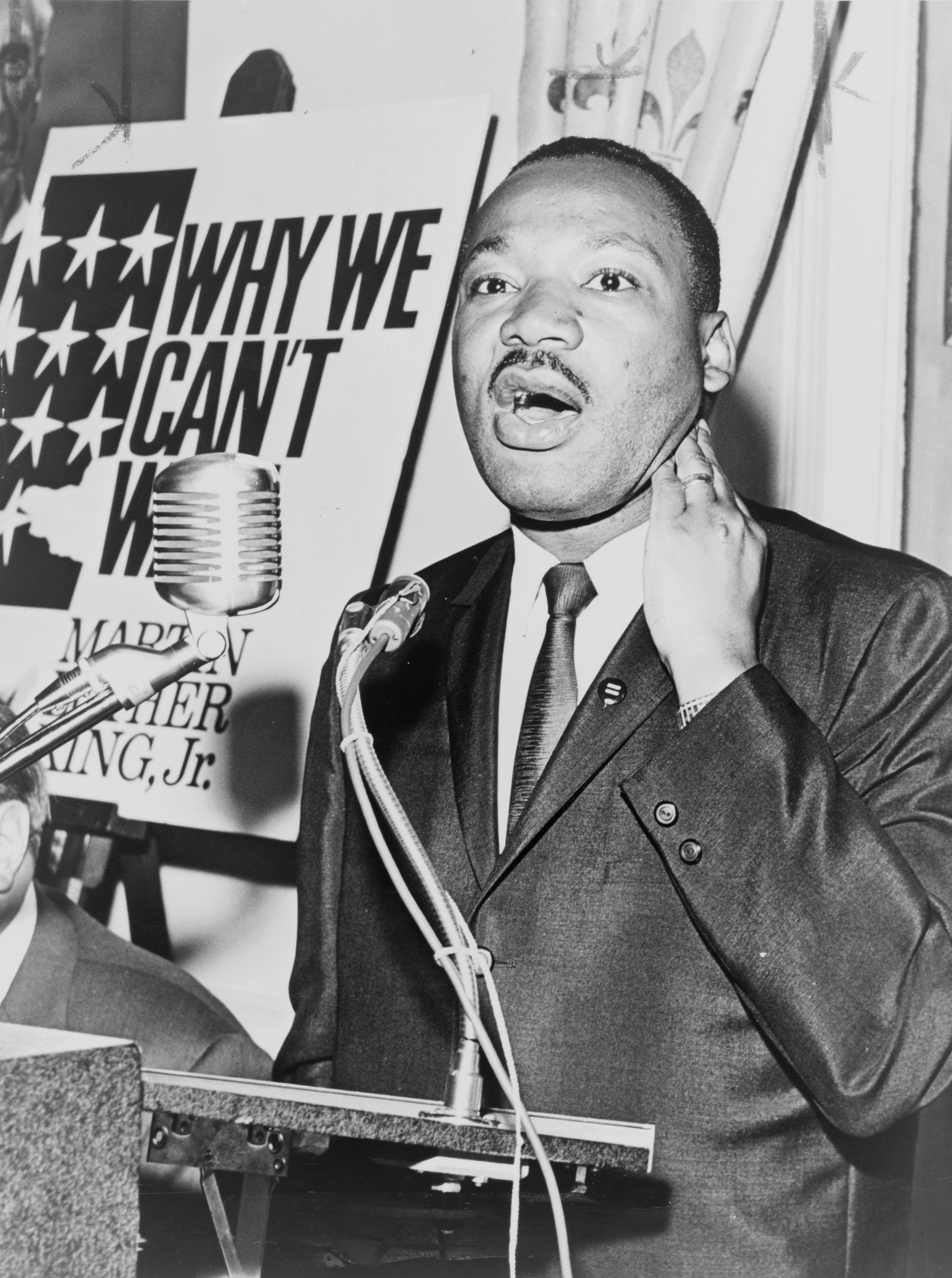 Martin Luther King, Jr., three-quarter length portrait, standing, facing front, at a press conference / World Telegram & Sun photo by Walter Albertin.